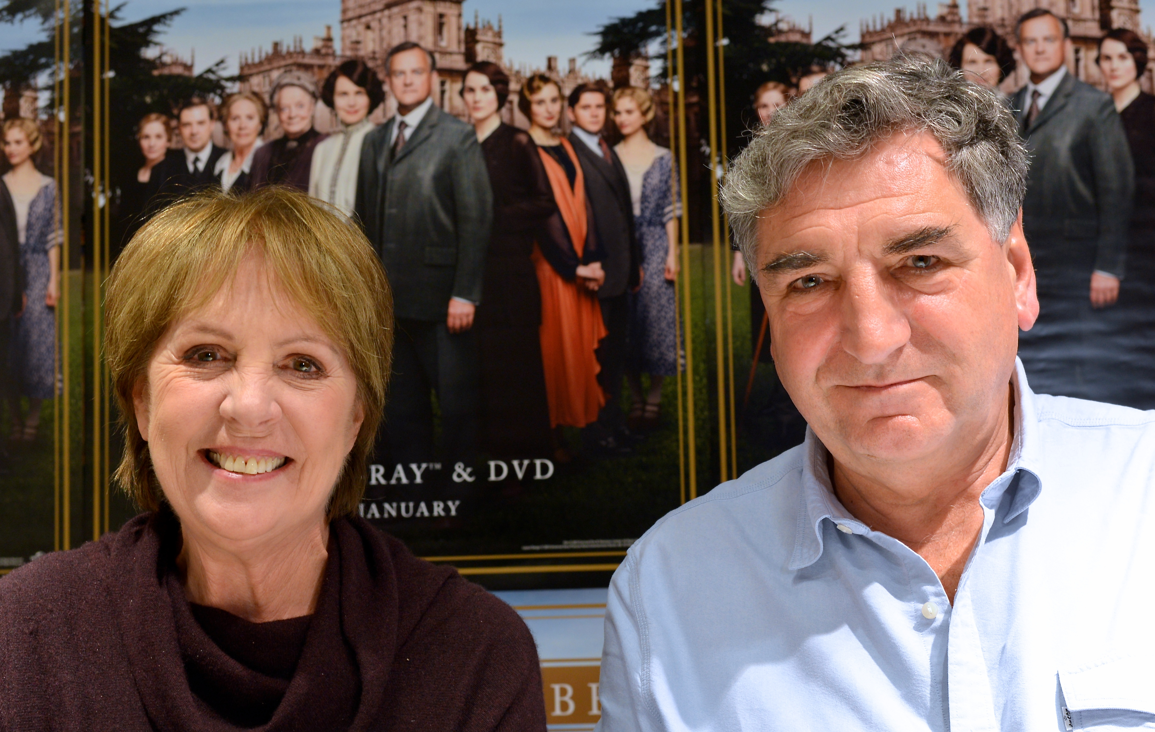 Actors Penelope Wilton and Jim Carter visiting Stockholm in Sweden in December 2013.